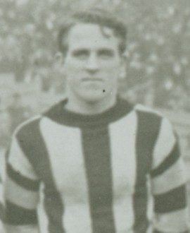 Photograph of Charlie Brown from 1916-1923